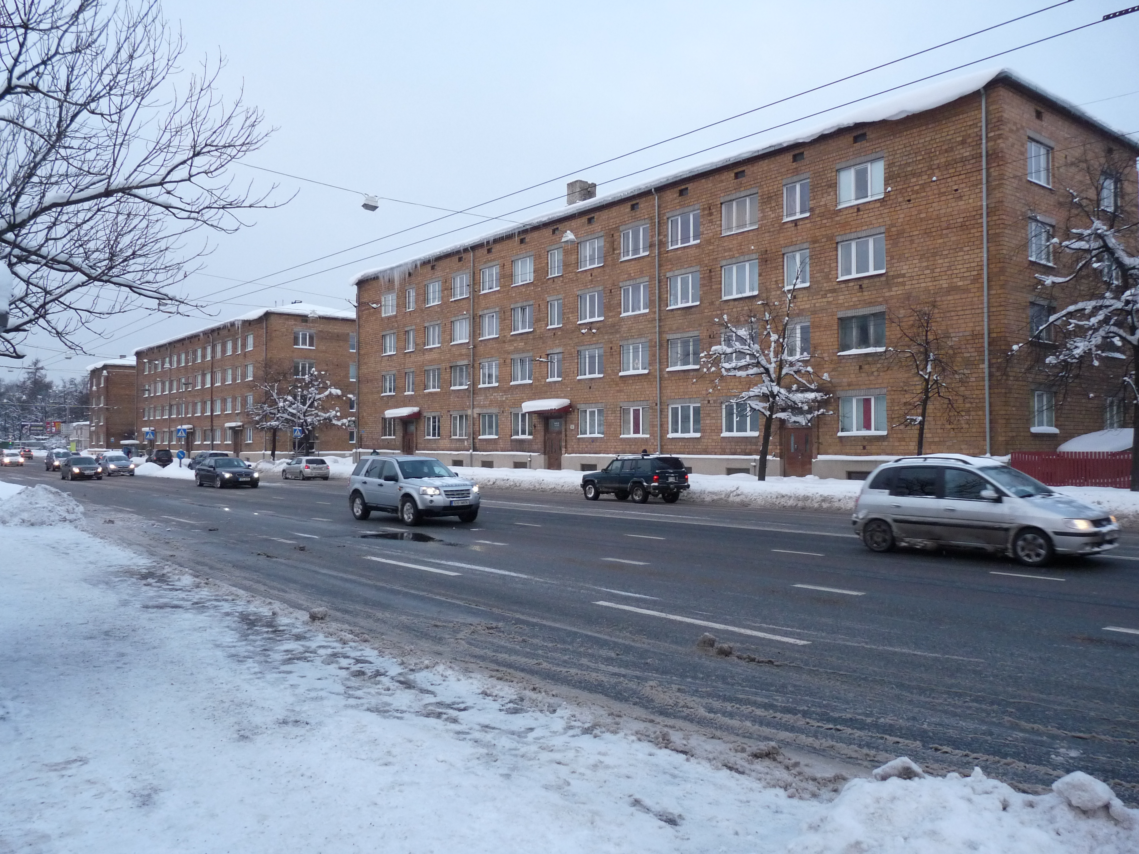 Brick apartament houses in Tallinn at the end of Endla street